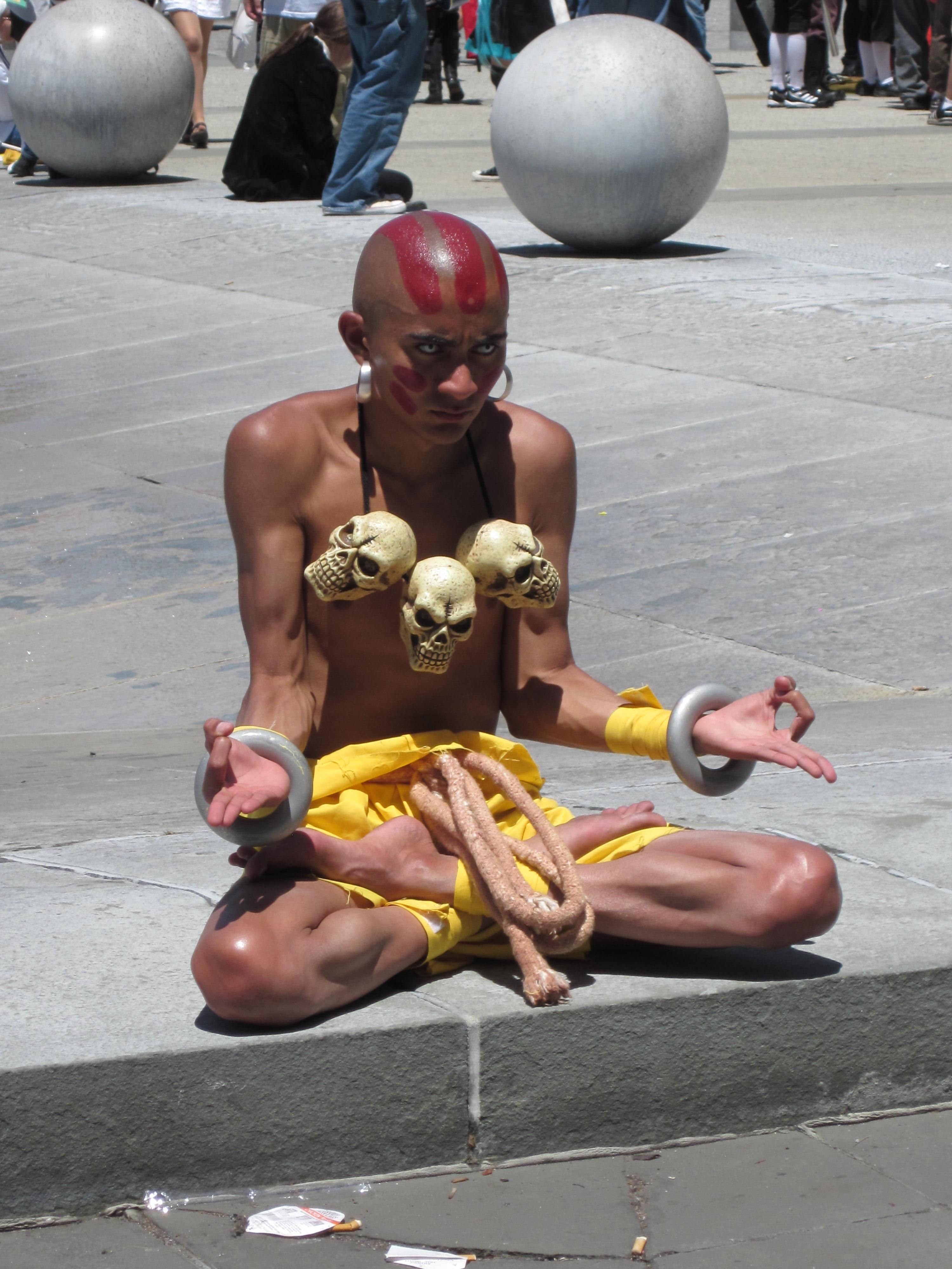 A cosplayer portraying Dhalsim from Street Fighter at FanimeCon 2010 in San Jose, California.